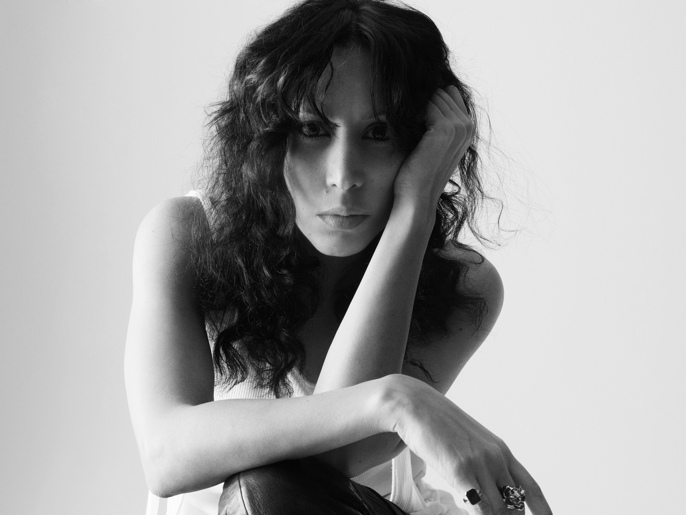 Swedish singer Titiyo.